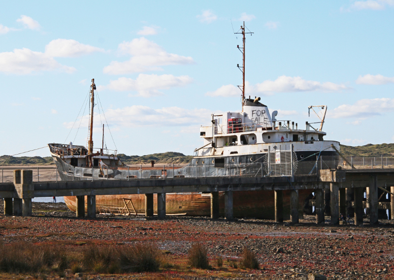 East Yelland Power Station Jetty, near to Yelland, Devon, Great Britain. Is this the end of the "Severn Sands" story? After having drifted and run aground off Fremington Quay some years ago (see SS5133) the ship was dislodged by high tides in 2010 and, as a possible hazard to navigation and pollution risk, was towed to the derelict East Yelland Power Station coal jetty for scrapping.